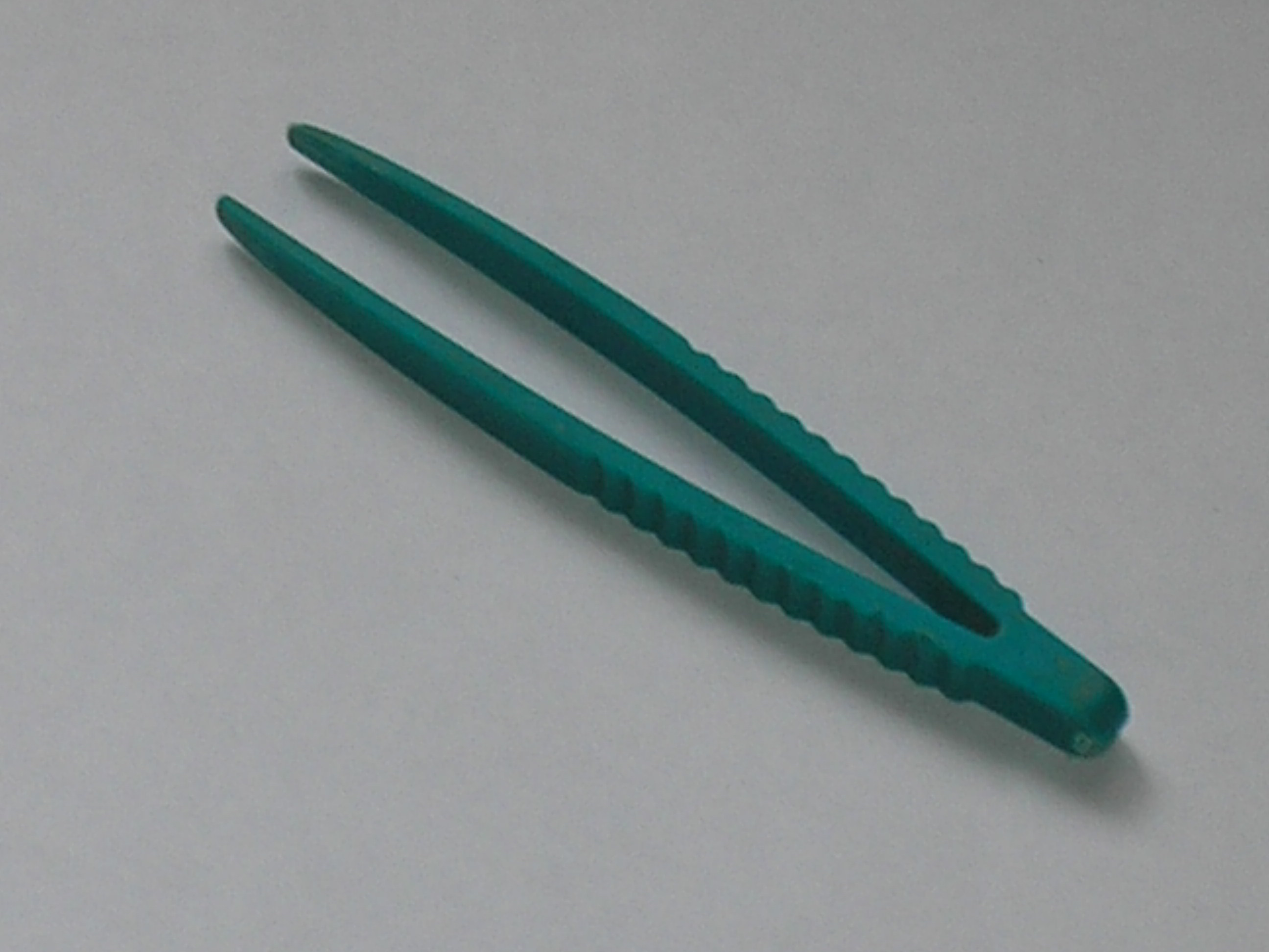 Plastic Tweezers, First-Aid Tool First-Aid Kit